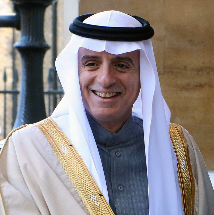 Foreign Secretary Boris Johnson and Saudi Minister of Foreign Affairs Adel bin Ahmed Al-Jubeir at the international Syria meeting in London, 16 October 2016.